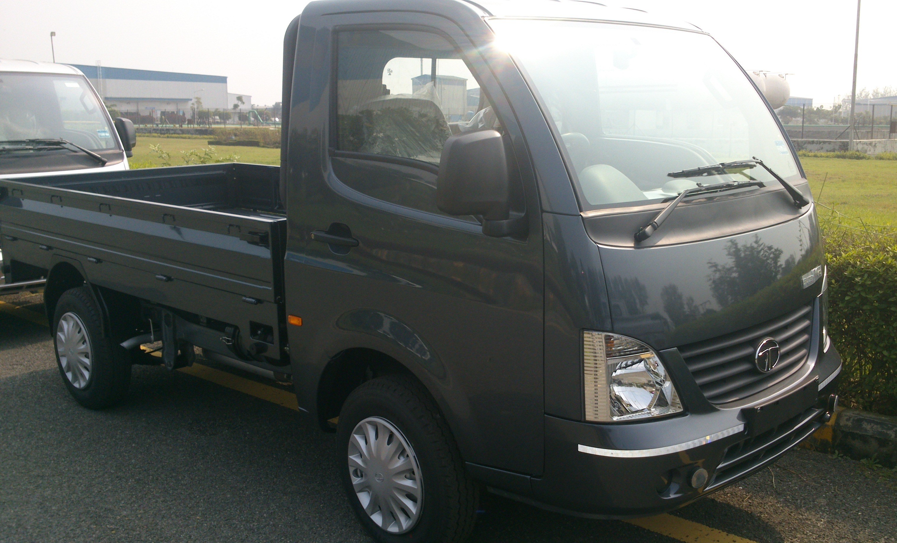 super ace main